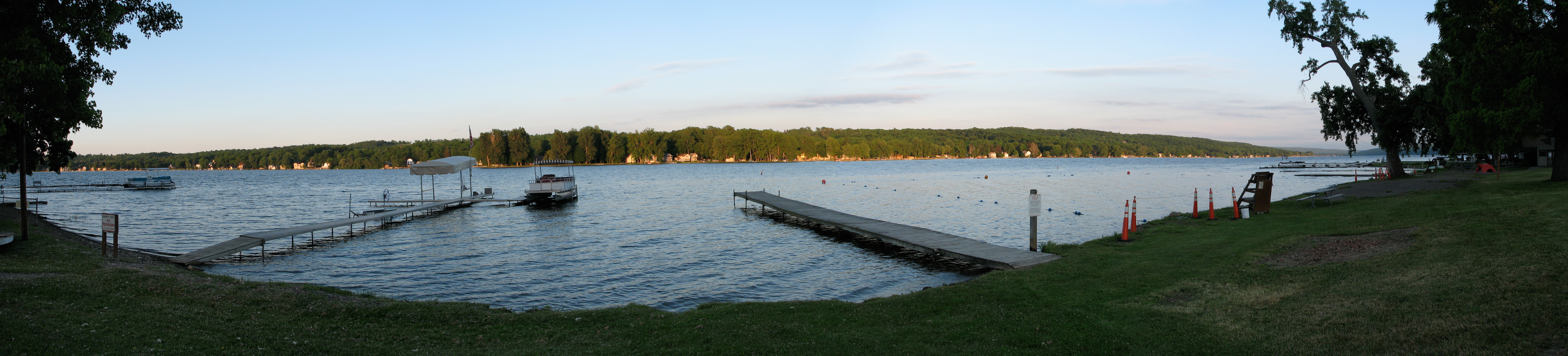 A semi-panorama of Conesus Lake, taken from the "beach" at Long Point Park on the west side of the lake.